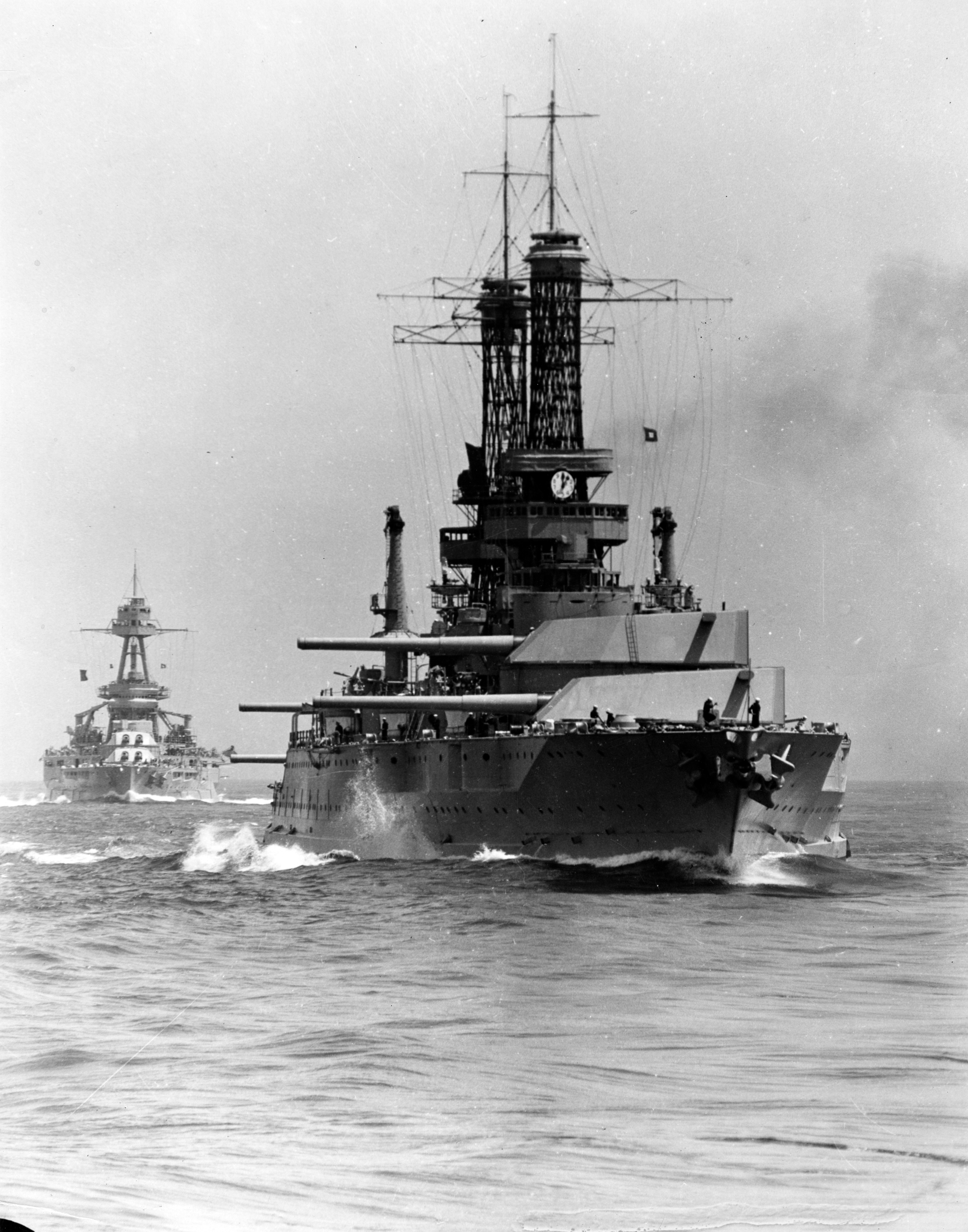 USS Idaho (BB-42) (foreground) and USS Texas (BB-35) Steaming at the rear of the battle line, during Battle Fleet practice off the California coast, circa 1930. Idaho's four triple 14/50 gun turrets are trained on the starboard beam. Courtesy of the Naval Historical Foundation, Washington, D.C. U.S. Naval History and Heritage Command Photograph.